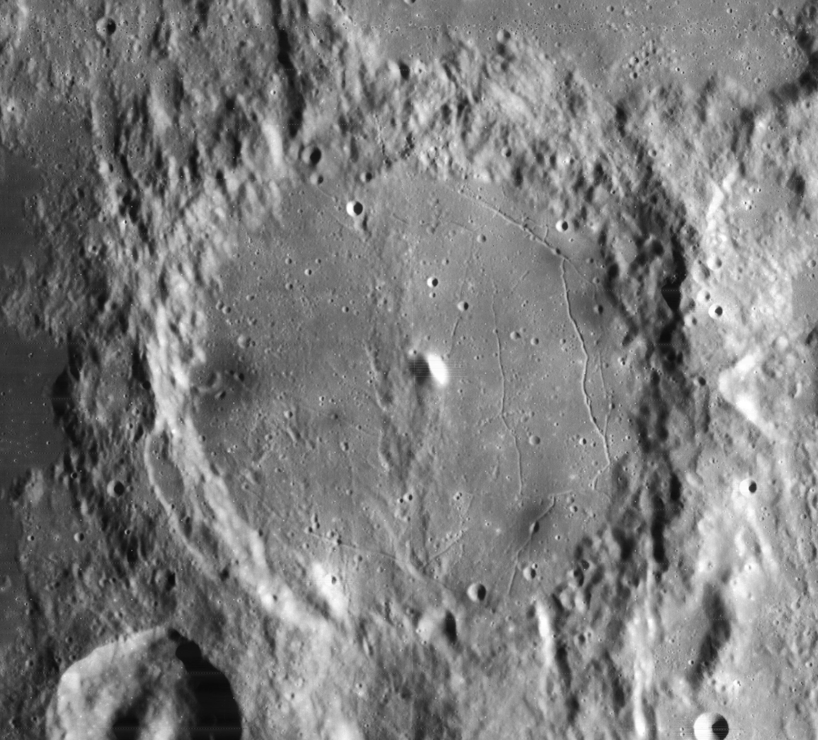 Alphonsus, on the moon.